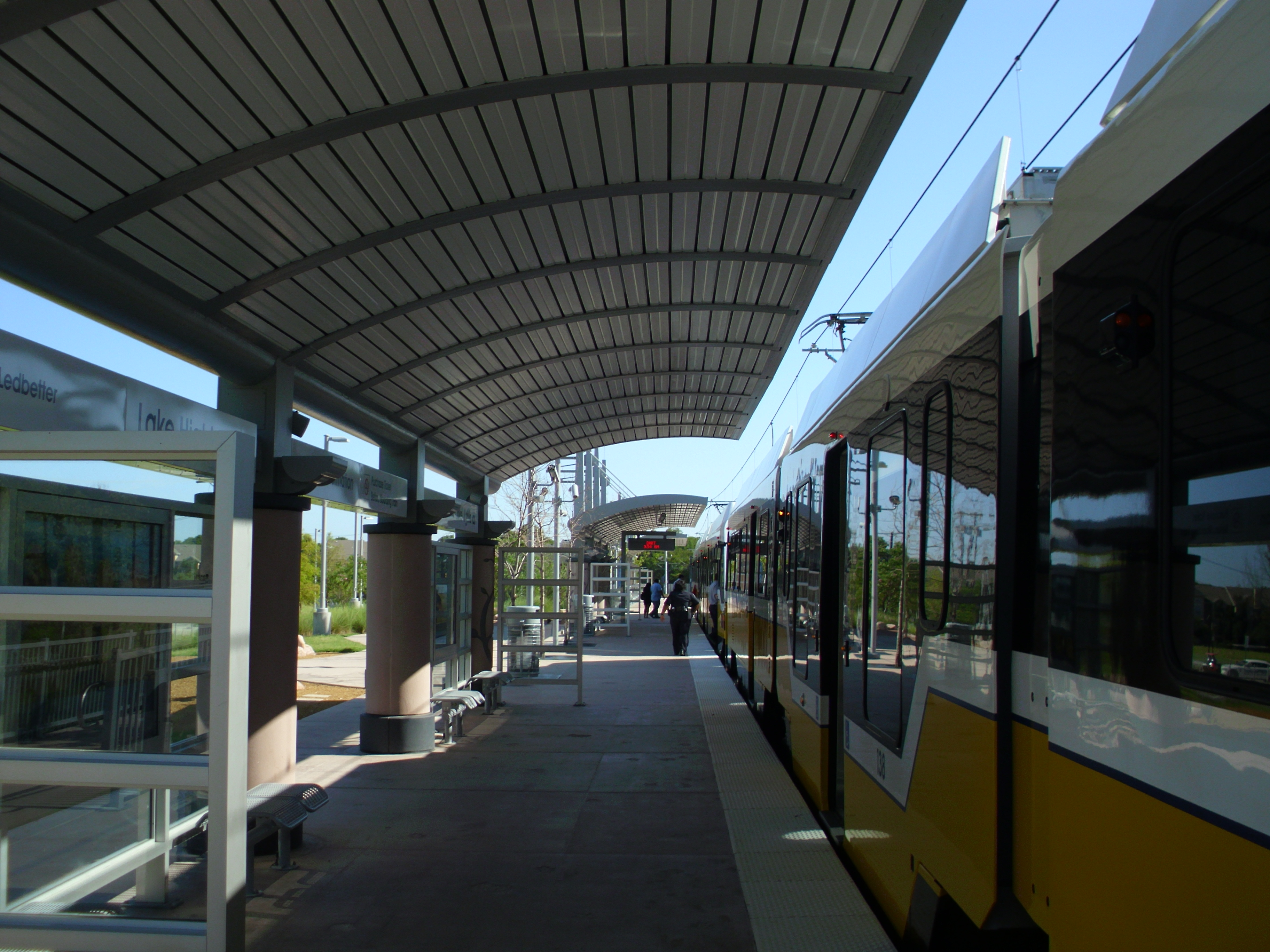 Passengers getting off/on the Blue Line light rail at Lake Highlands Station.